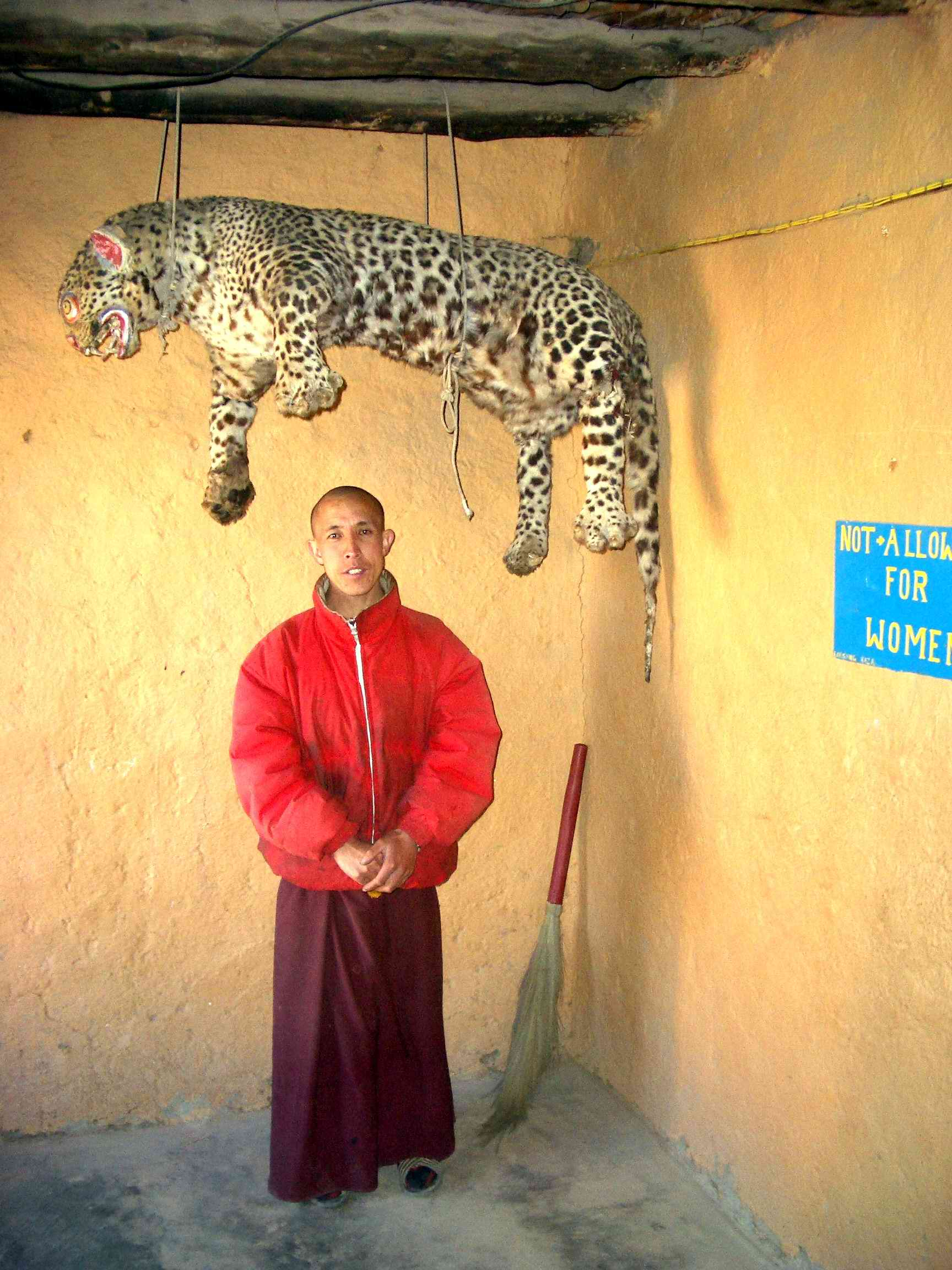 I took this photo myself at Tangyud in 2004